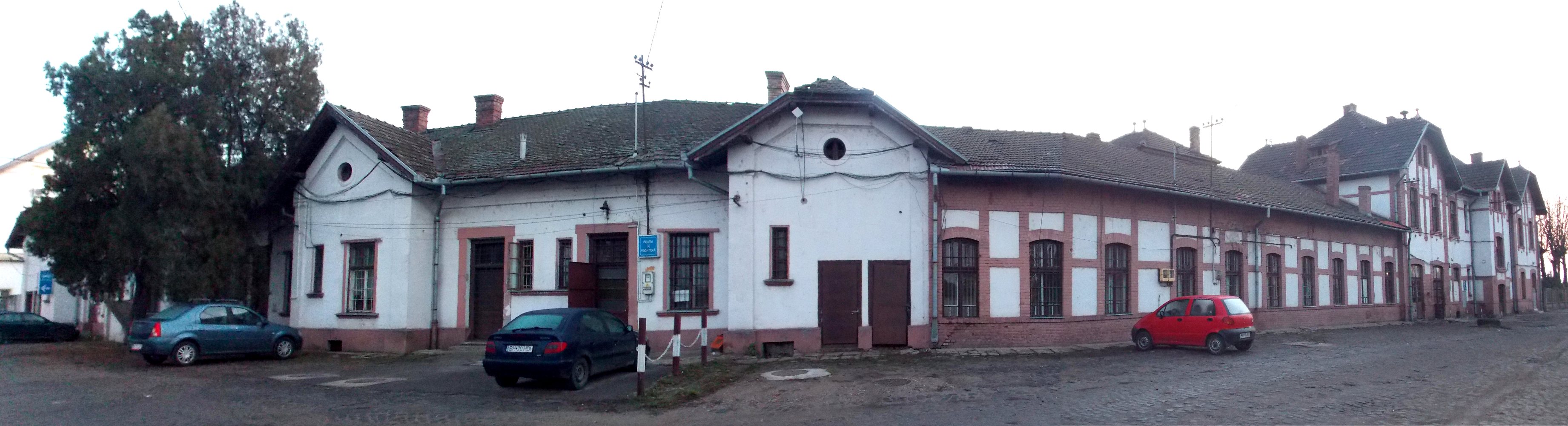 Episcopia Bihor Train Station complex - main building